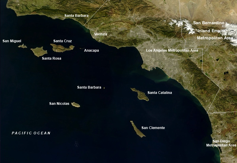 Map of Southern California — with the Channel Islands identified. Underlying map is an aerial map obtained from NASA (original: The labeling is by me